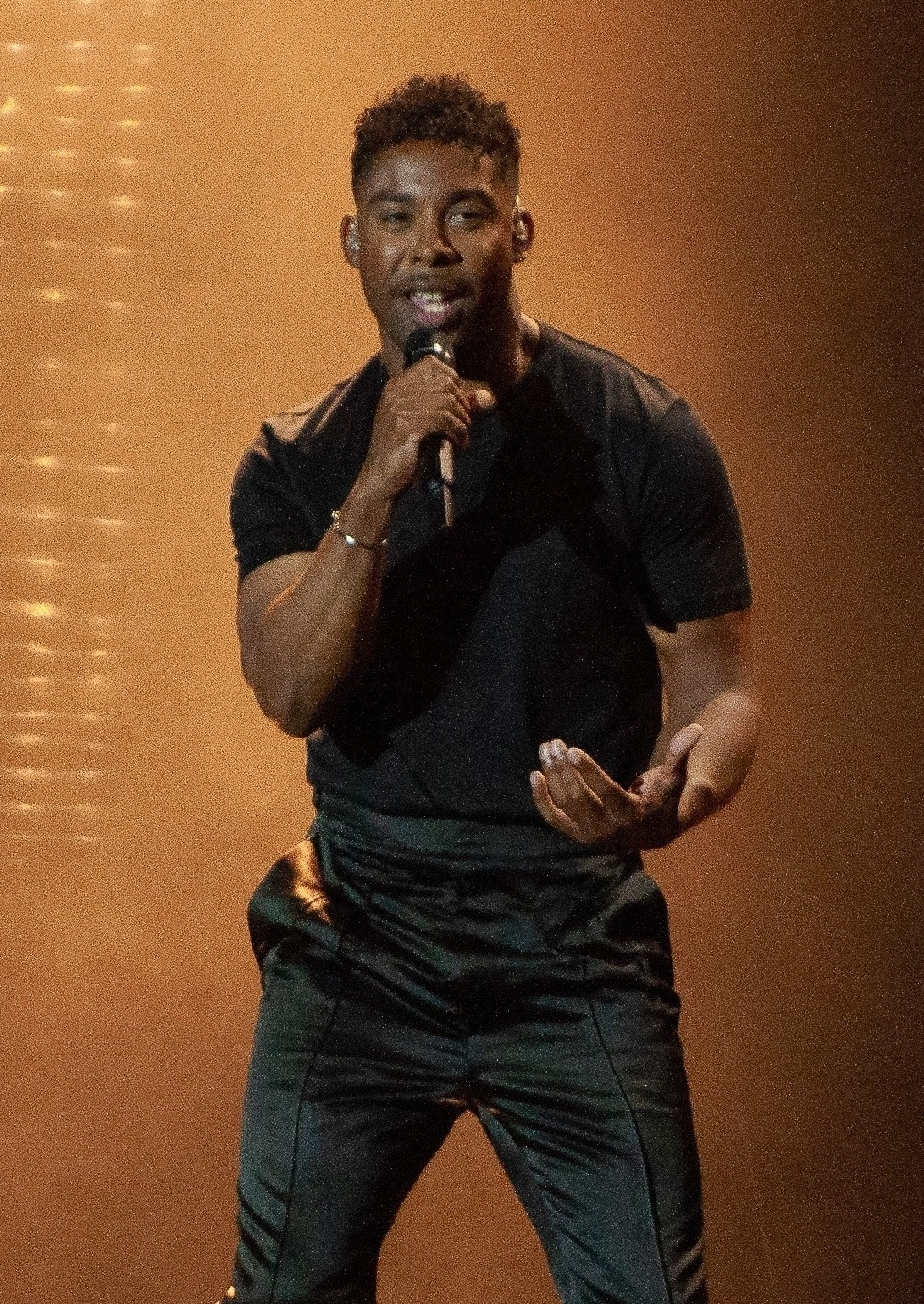 At the 2019 Eurovision Song Contest Semi-final 2 dress rehearsal